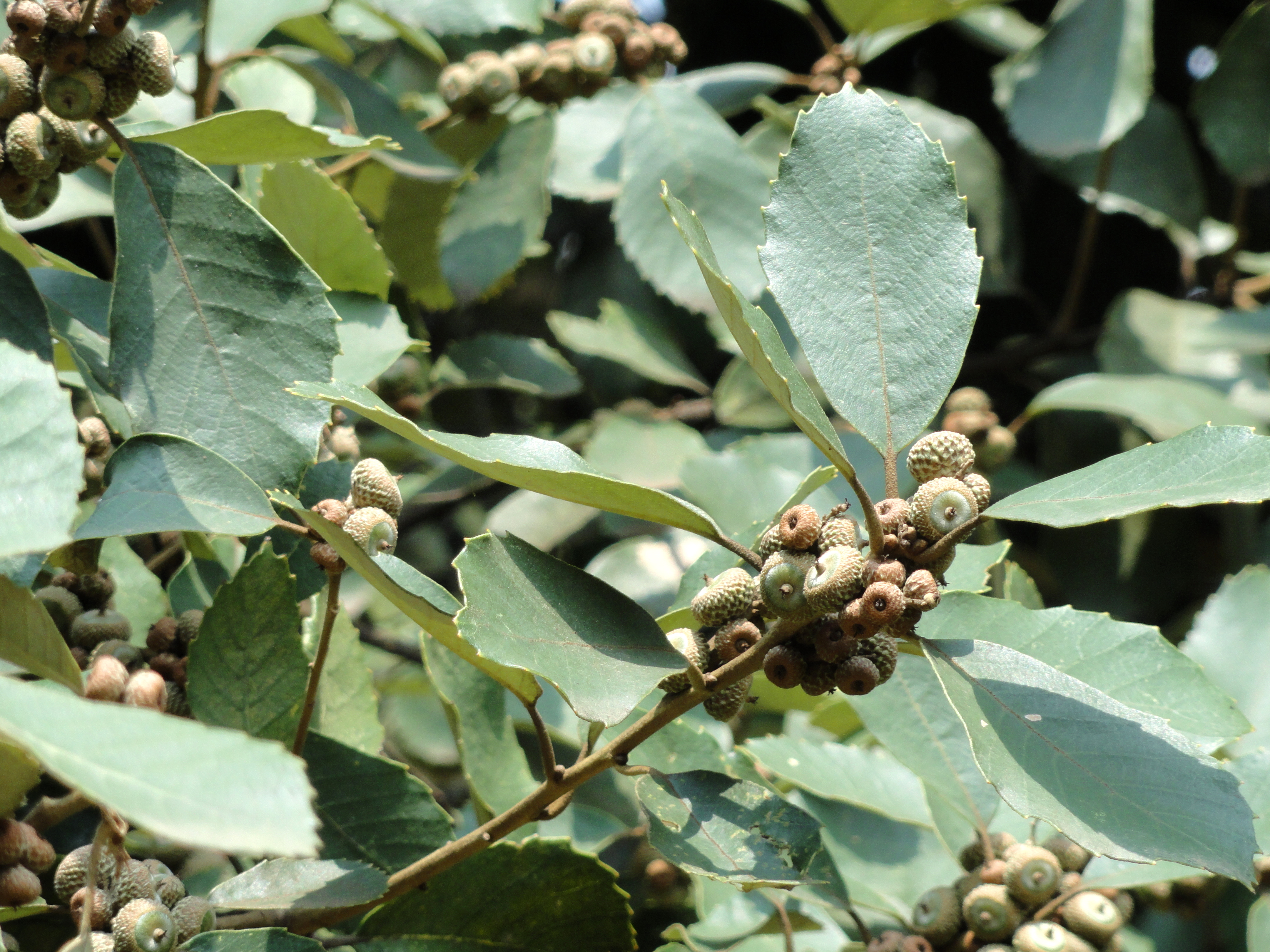 Plant specimen in the Kunming Botanical Garden, Kunming, Yunnan, China.